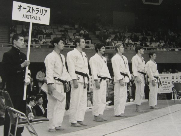 Australian Team Members Karate World Championships Tokyo Japan October 1970: Paul Starling, Ilias Zacharias, Danny Ellaby, John Halpin, Graham Kelleher, Coach Tamio Tsuji, Patron :Don Cameron